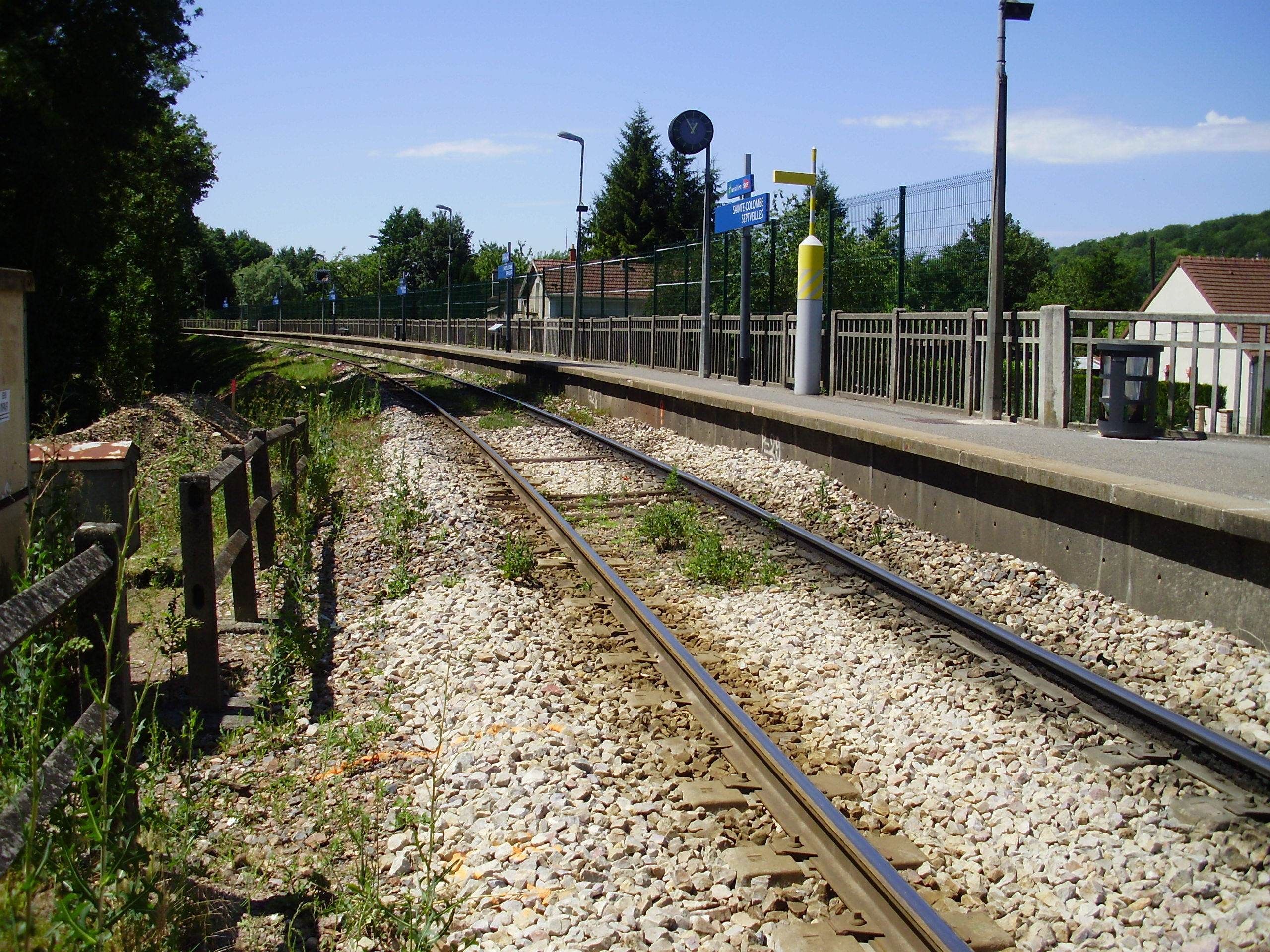 Sainte-Colombe - Septveilles station, in Sainte-Colombe, Seine-et-Marne, France (view towards Longueville)